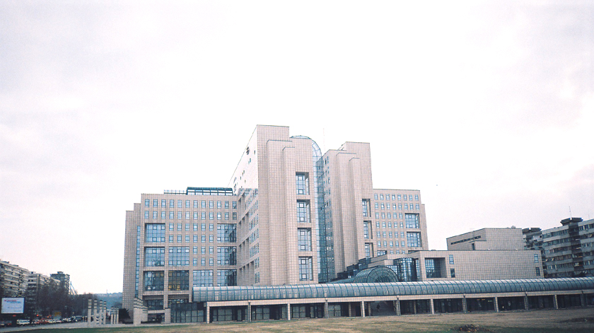 Image of Liman neighborhood in Novi Sad and NIS Naftagas building (self made) Category:Novi Sad images Bild:NIS-NFATAGAS-Liman3.jpg